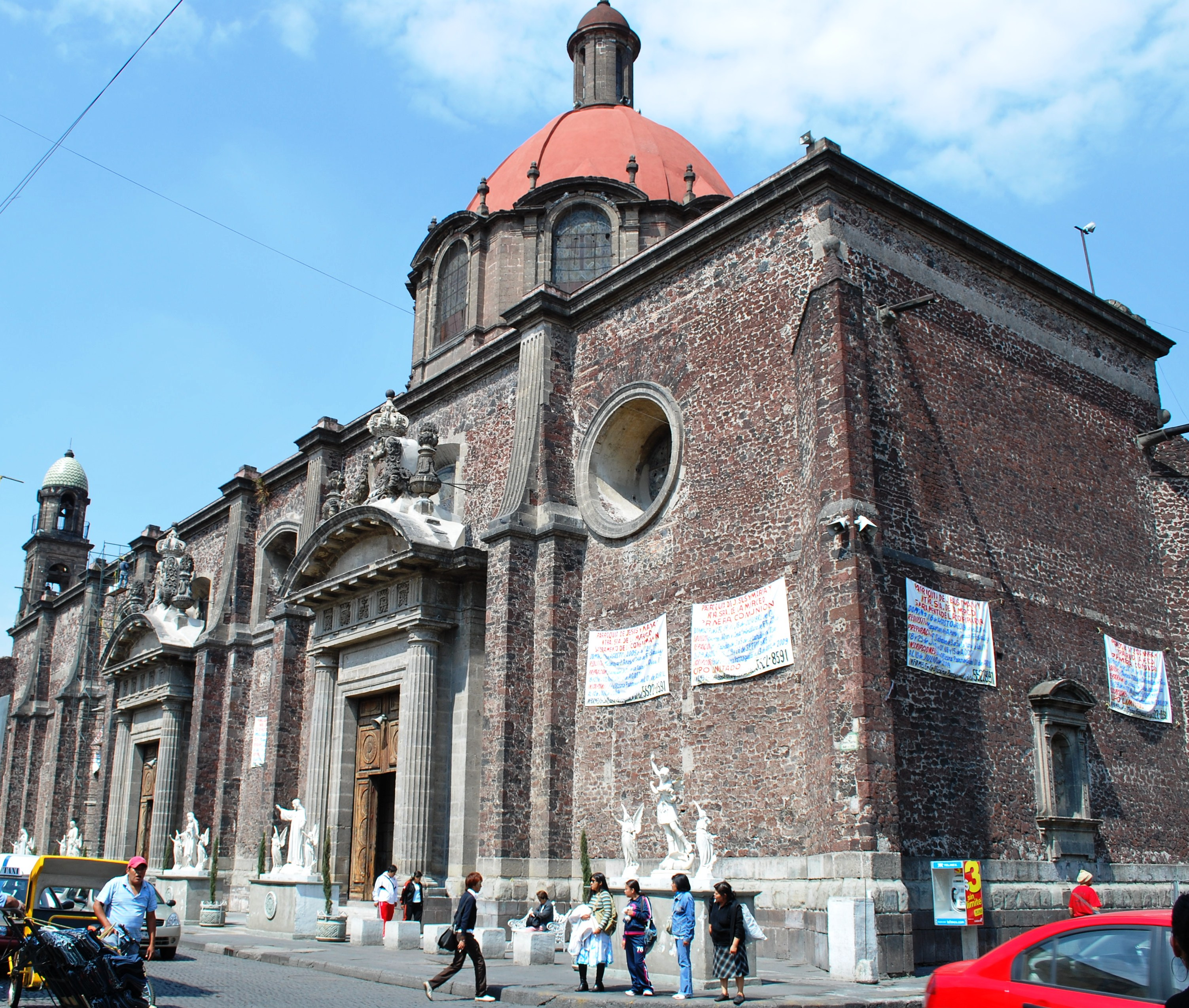 Facade of the Parish of Jesus y Maria y Nuestra Señora de la Merced in the historic center of Mexico City